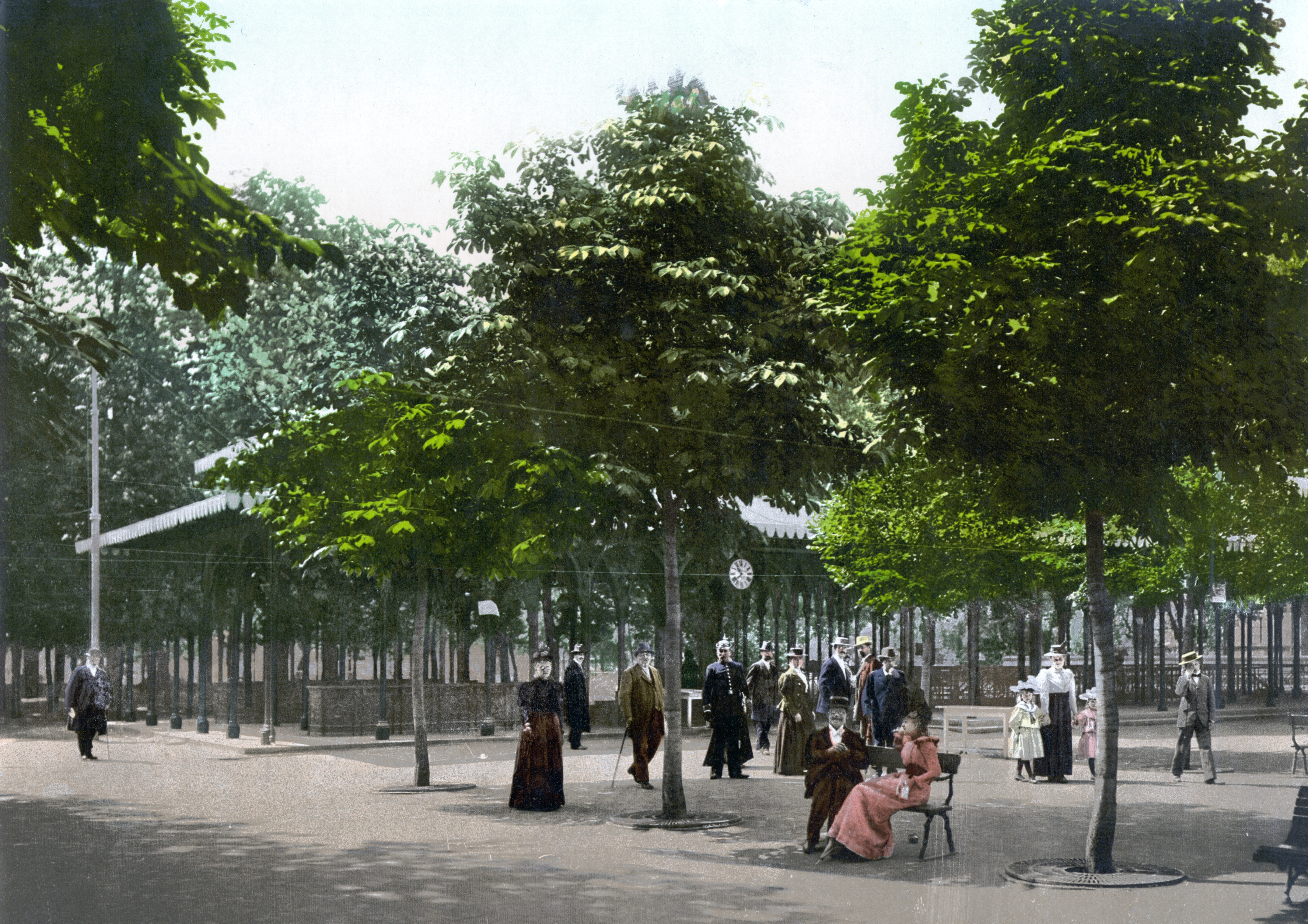 Public garden in Bad Kissingen (about 1900)